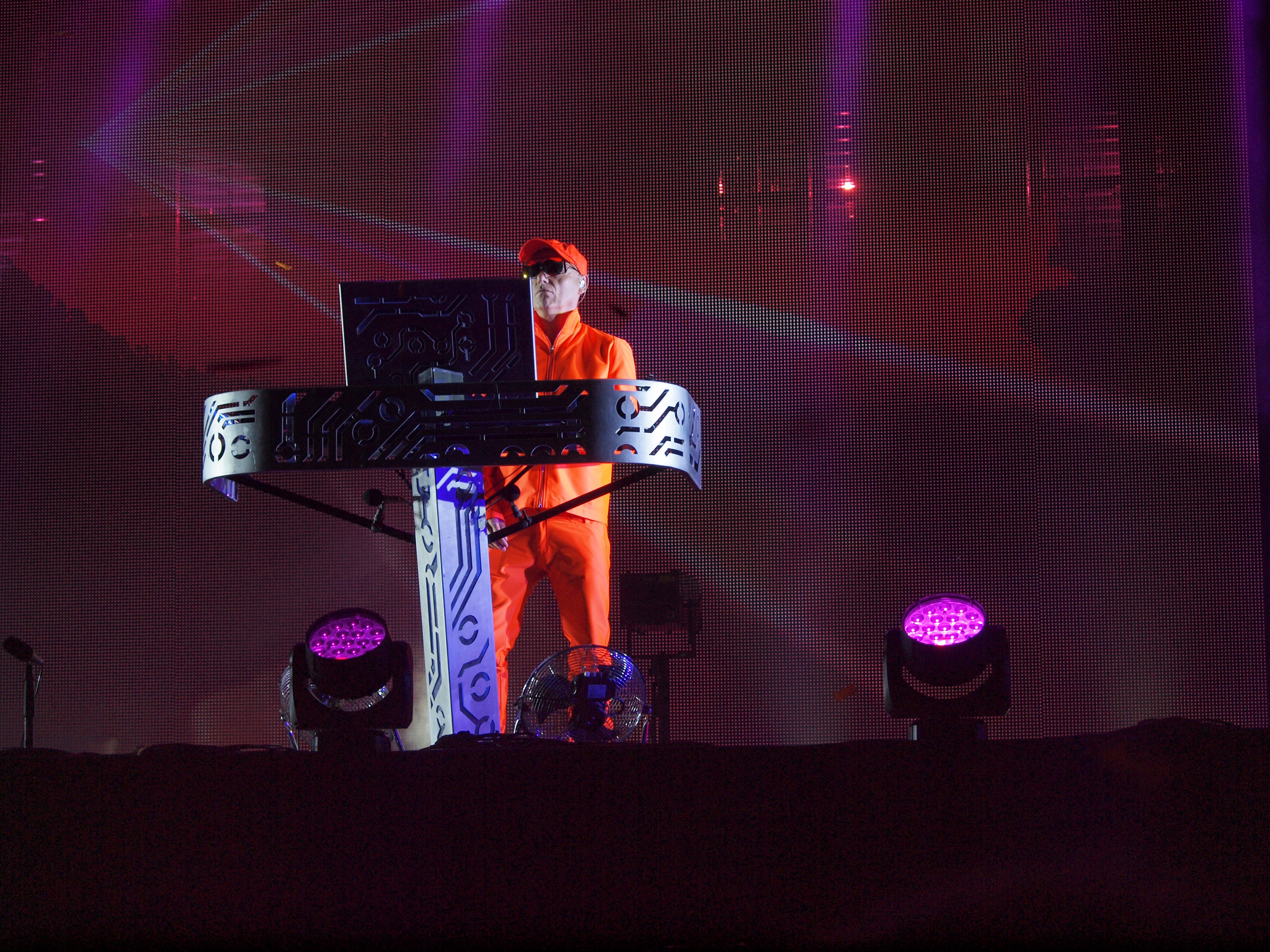 Chris Lowe from the Pet Shop Boys live at Pori Jazz 2014.